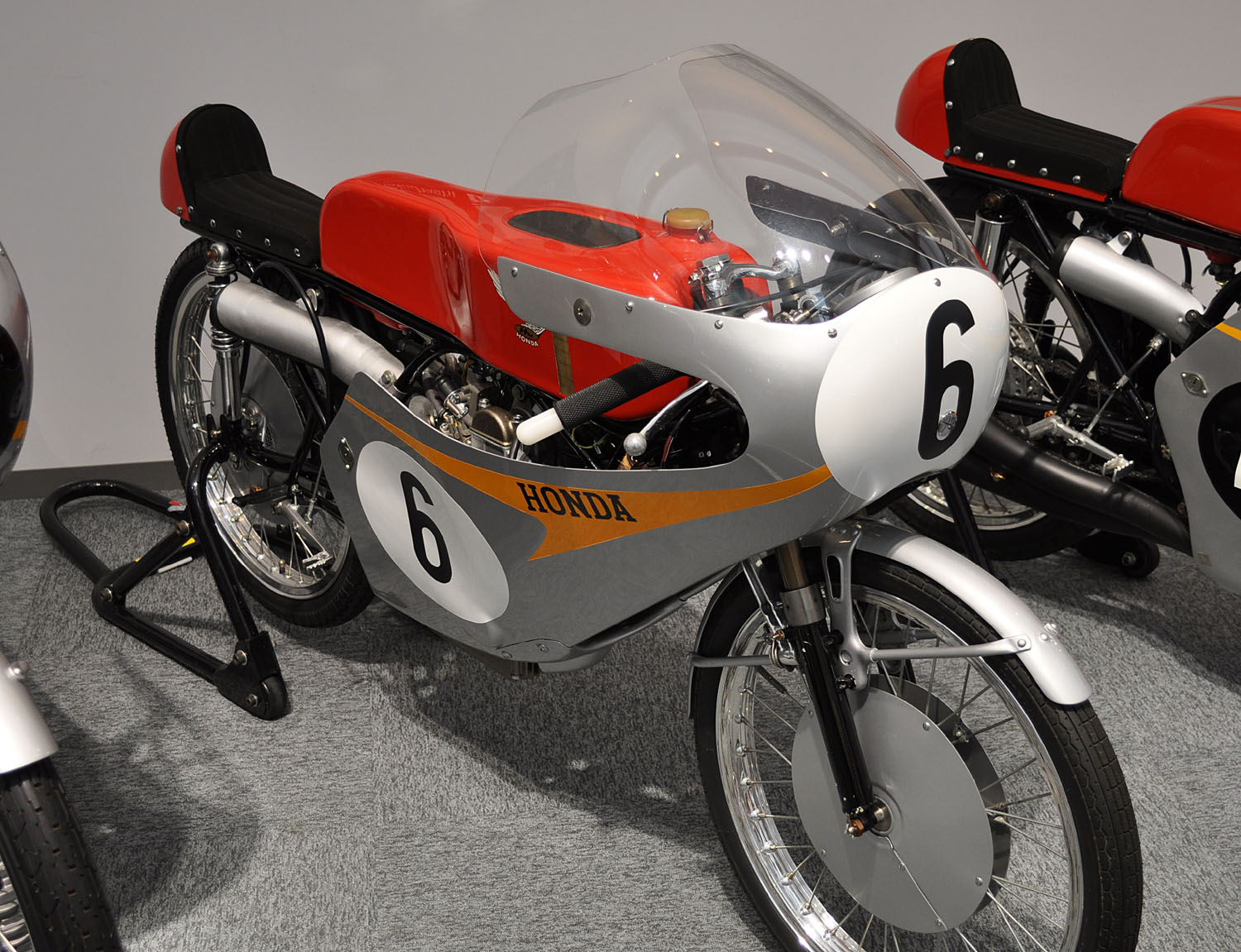 Honda RC115 (Ralph Bryans, 1965)